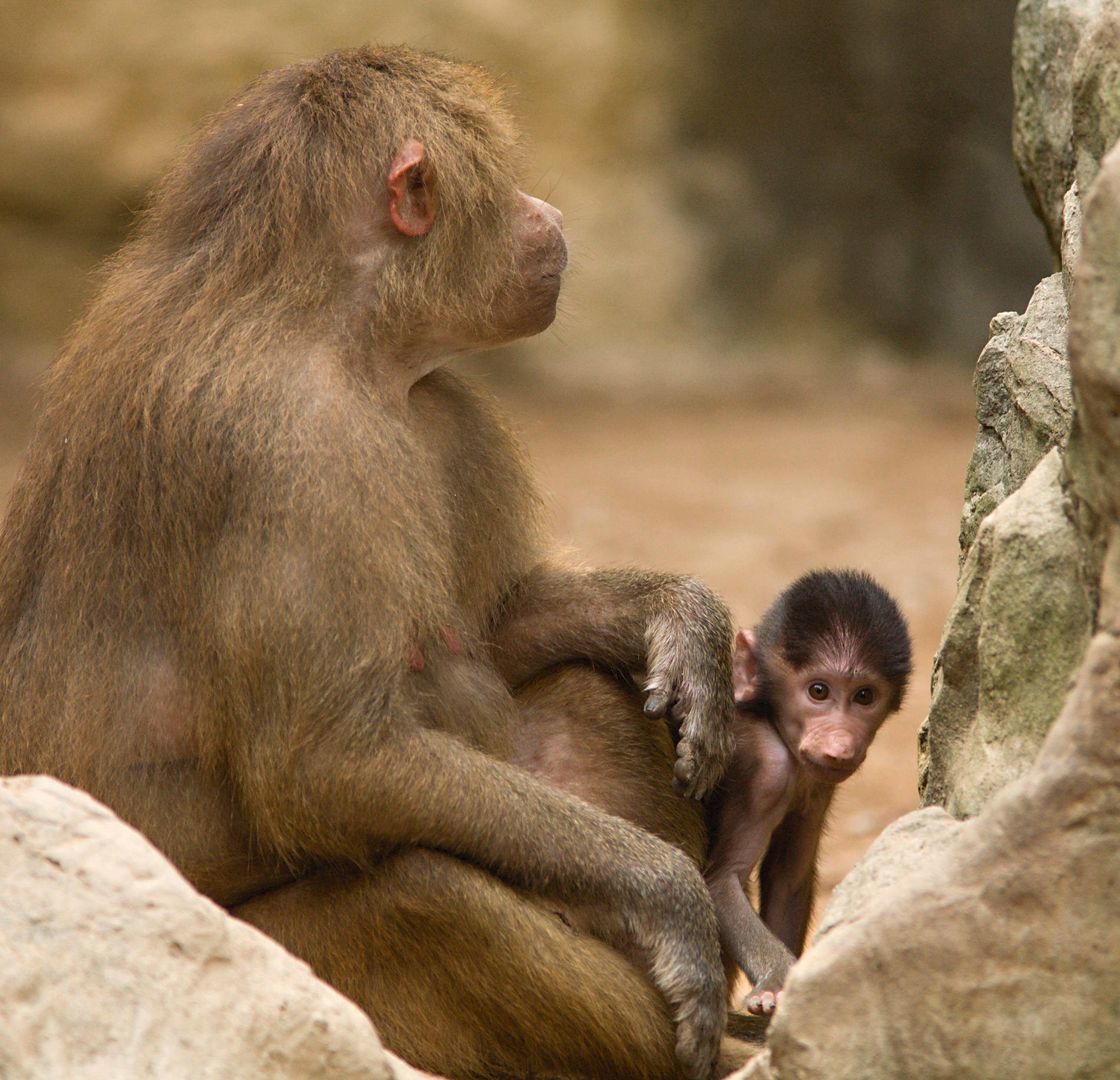 Hamadryas Baboons Needs additional description